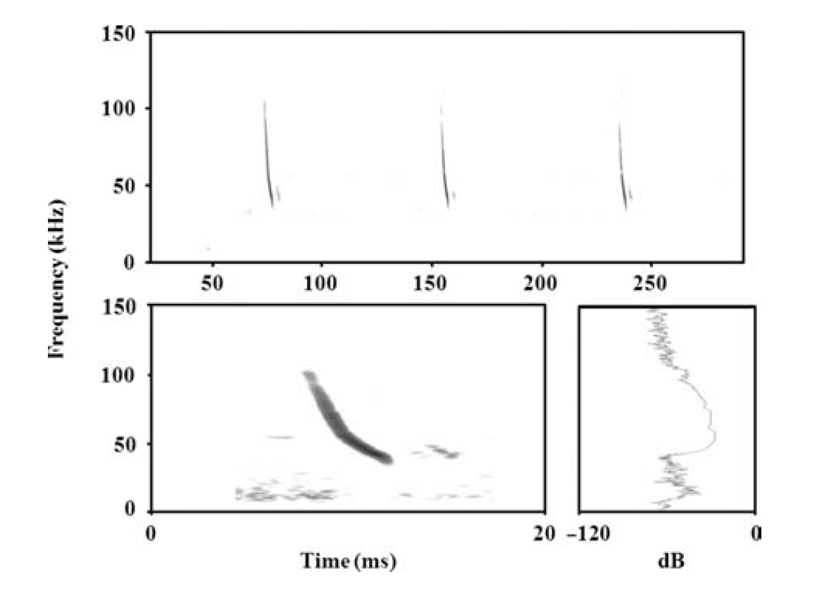 Sonograms of the calls of Myotis chiloensis).